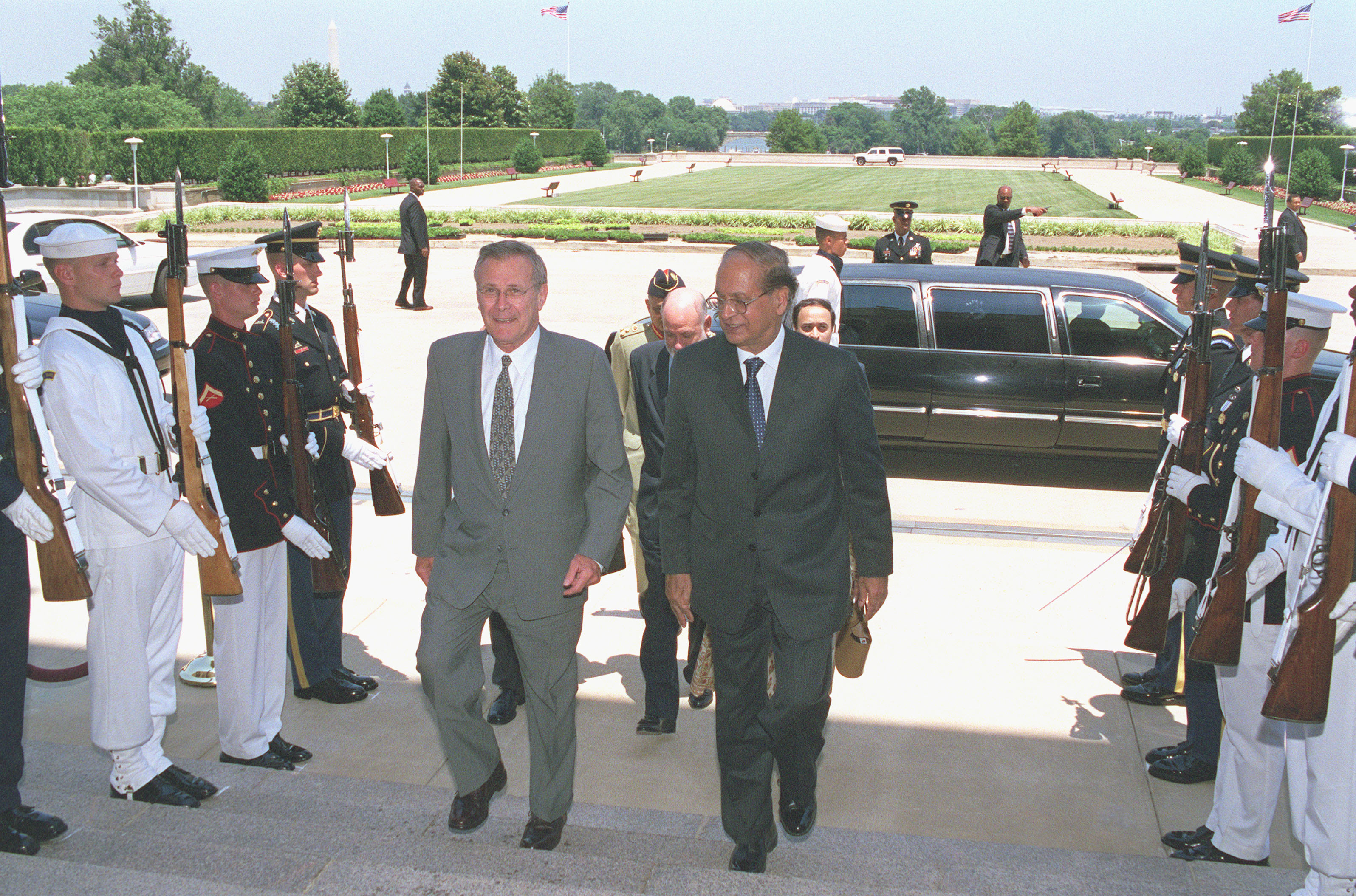 Abdul Sattar (right), Pakistan's minister of foreign affairs, arrives at the Pentagon, June 19, 2001, where he is escorted to the meeting room by his host, Secretary of Defense Donald H. Rumsfeld (left). Minister Sattar met with both Rumsfeld and Deputy Secretary of Defense Paul Wolfowitz to discuss a range of regional issues of interest to both nations.